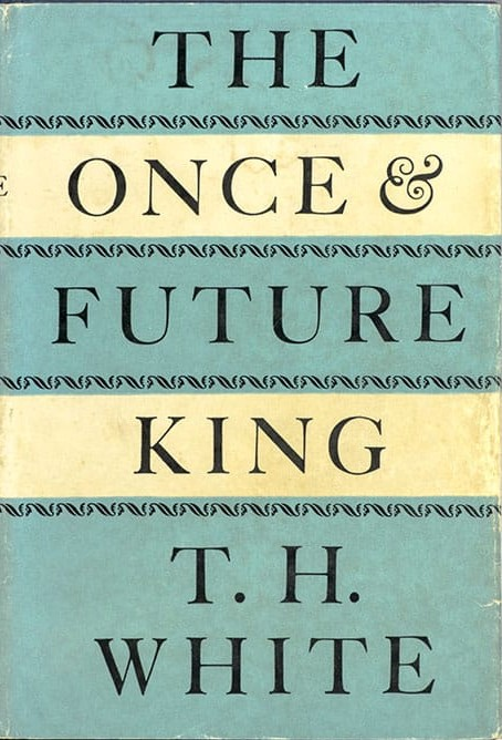 Front cover of the first edition of The Once and Future King by T. H. White.